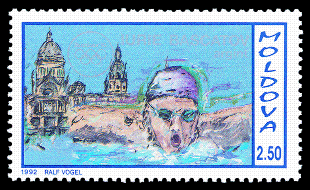 Stamp of Moldova